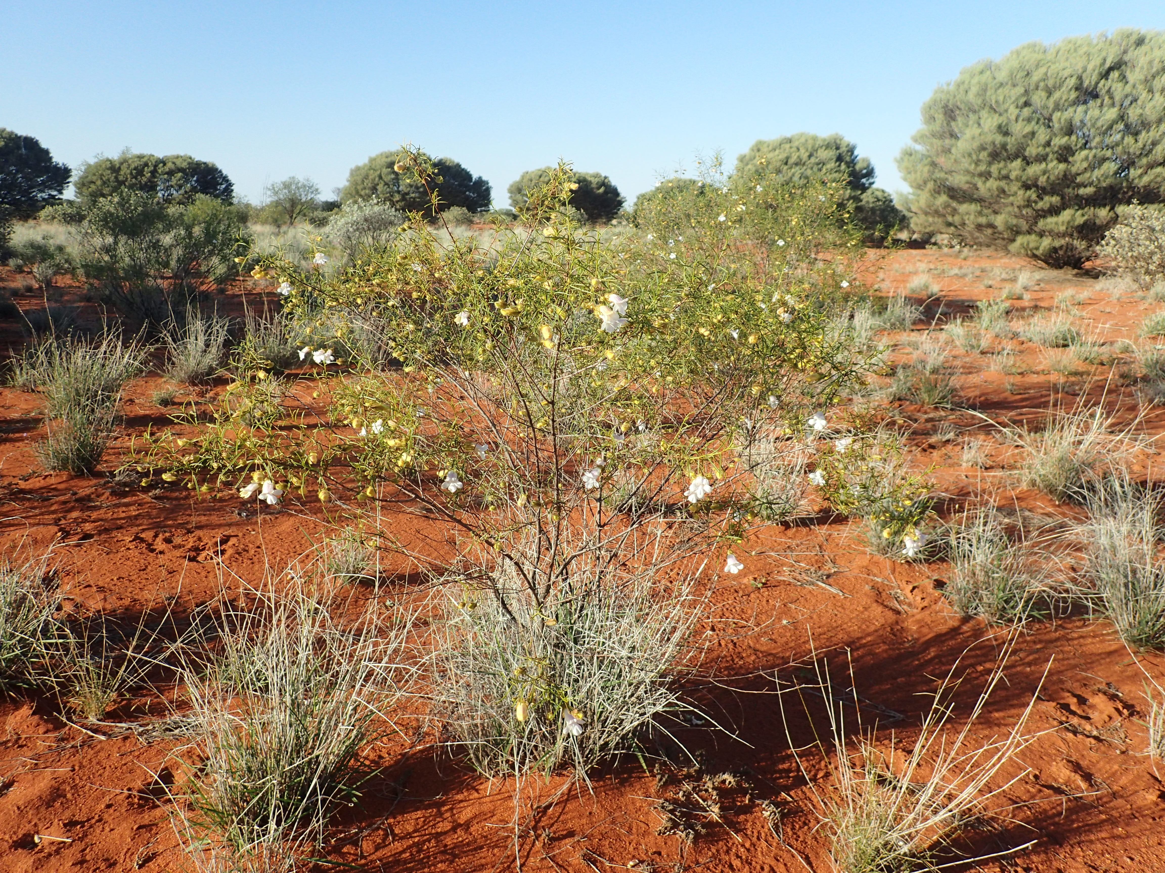 Eremophila spuria growing 10km south of Karalundi